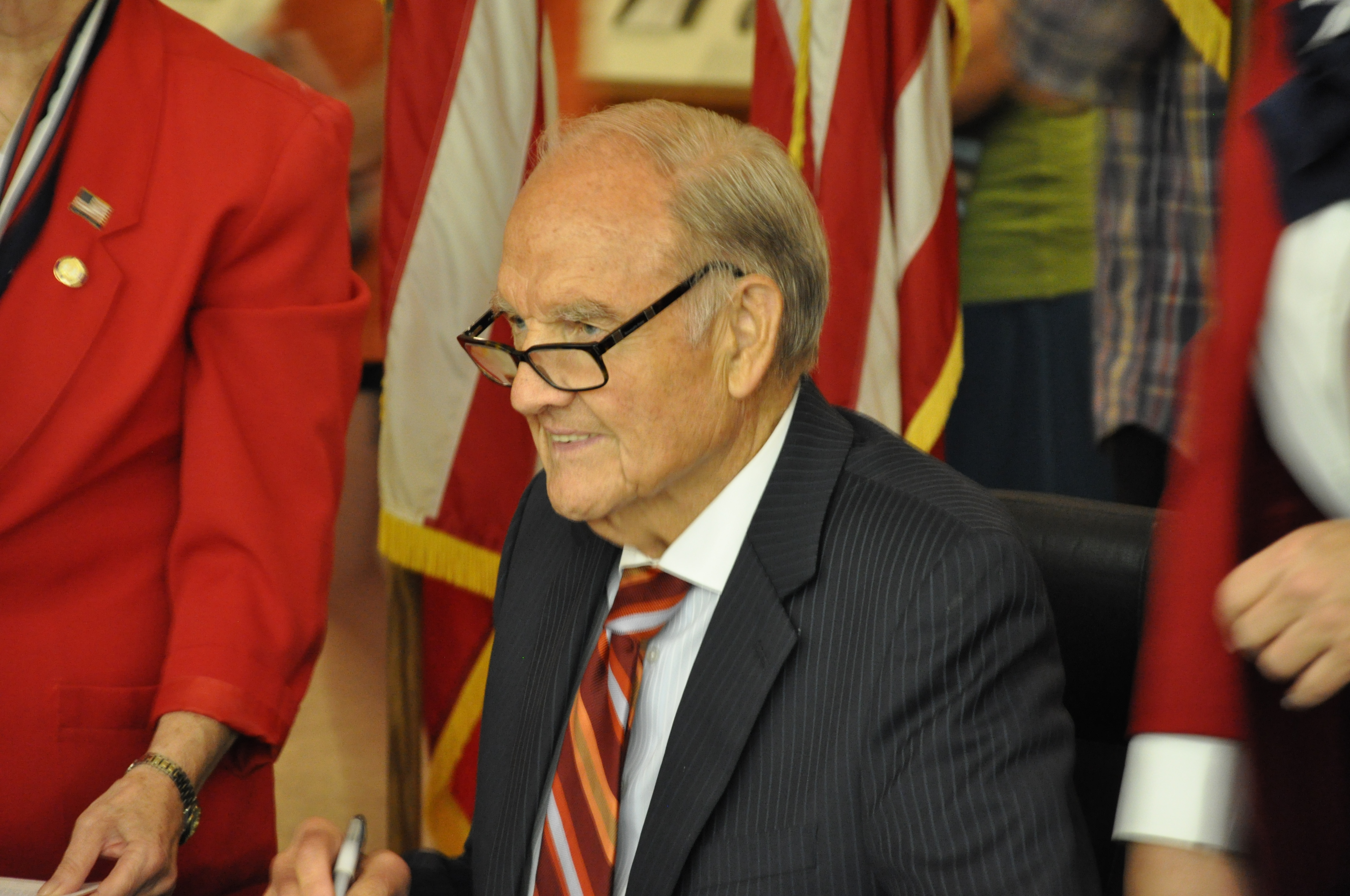 Senator George McGovern signing his book "Abraham Lincoln" at the Richard M. Nixon Library and Museum in Yorba Linda, California